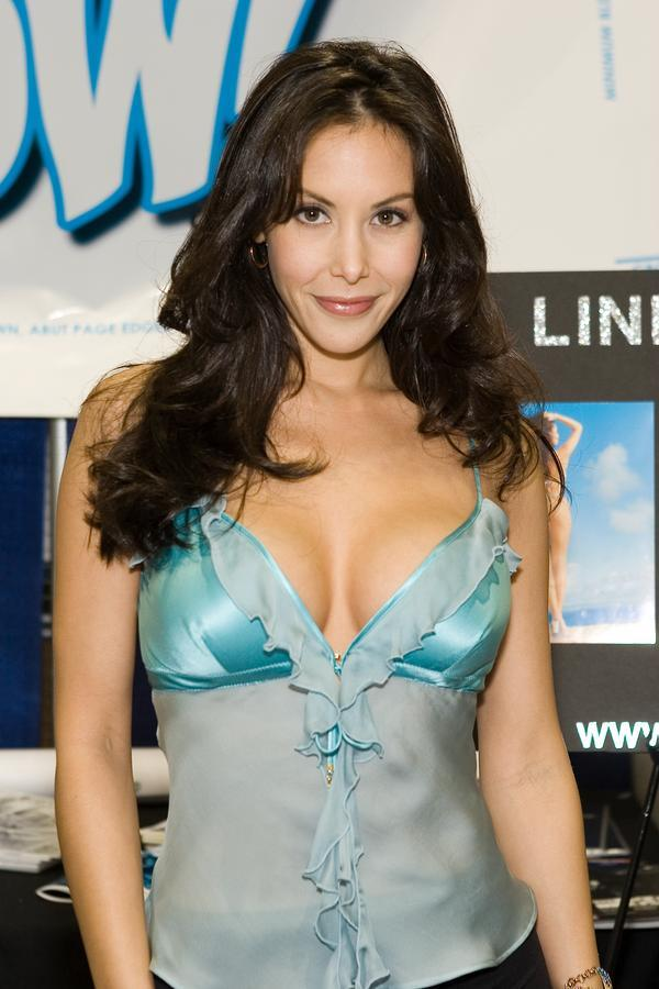 Linda O'Neil at Comic-Con International